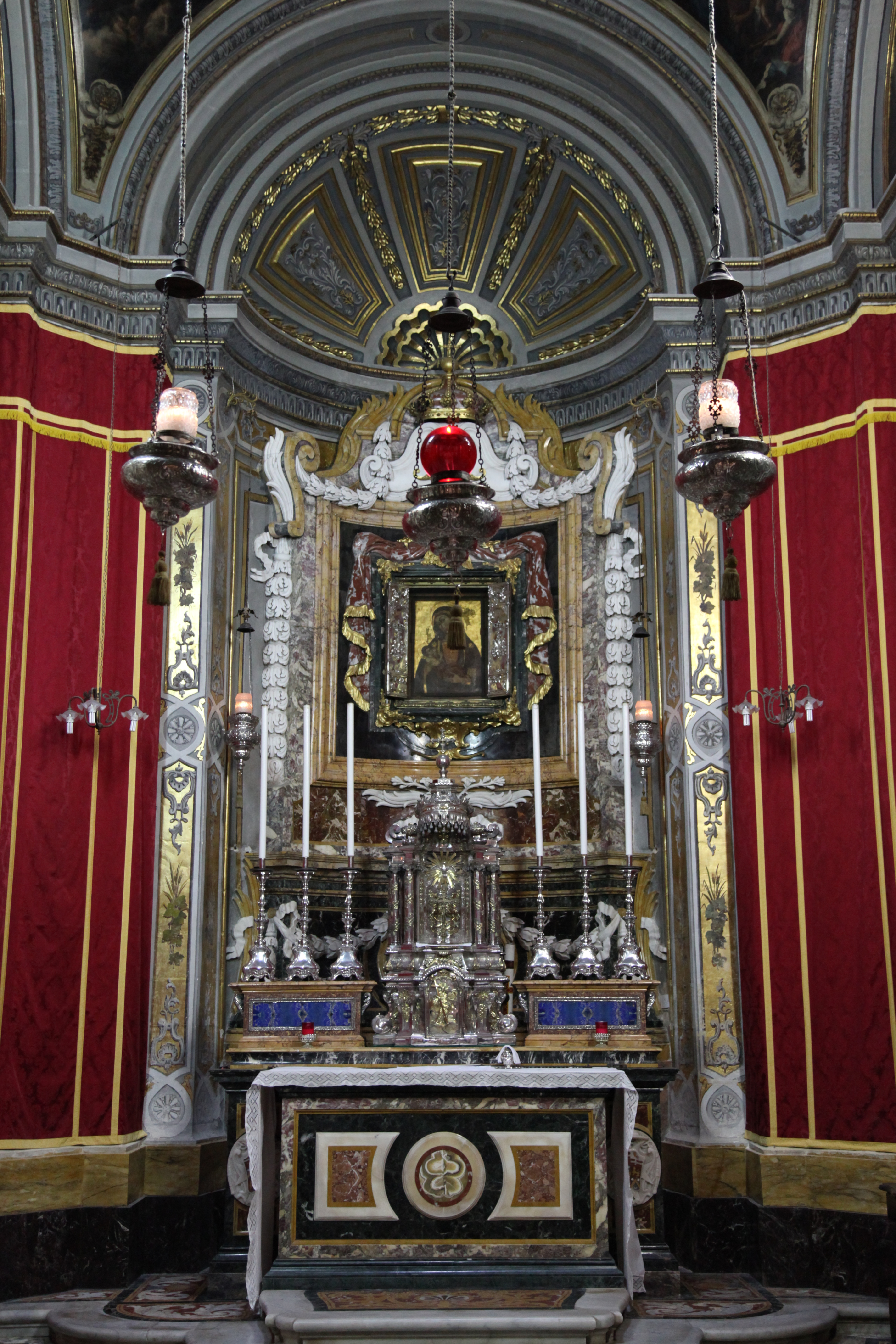 St. Paul's Cathedral, Pjazza San Pawl in Mdina, Malta